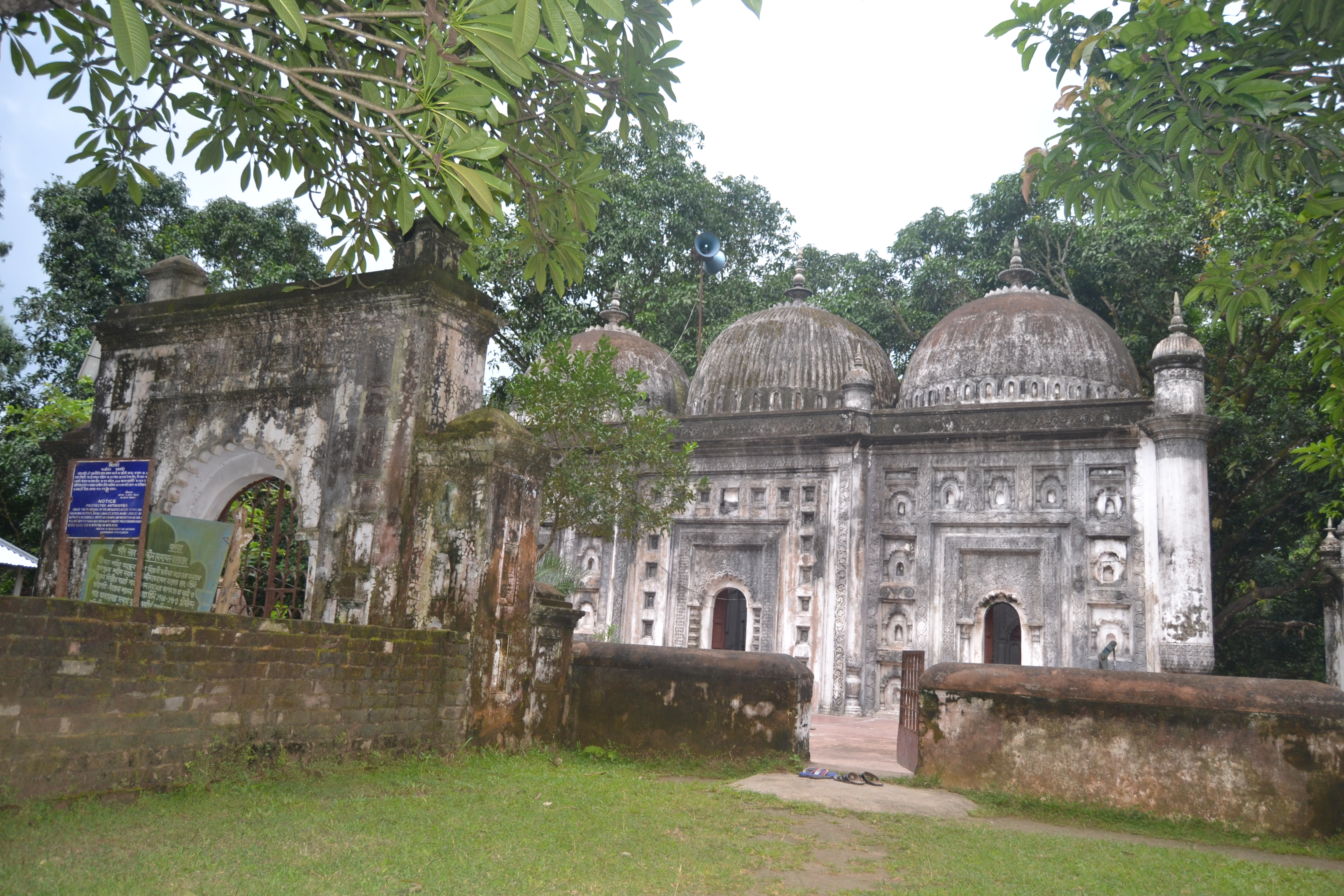 Fulchouki Mosque, Mithapukur, Rangpur